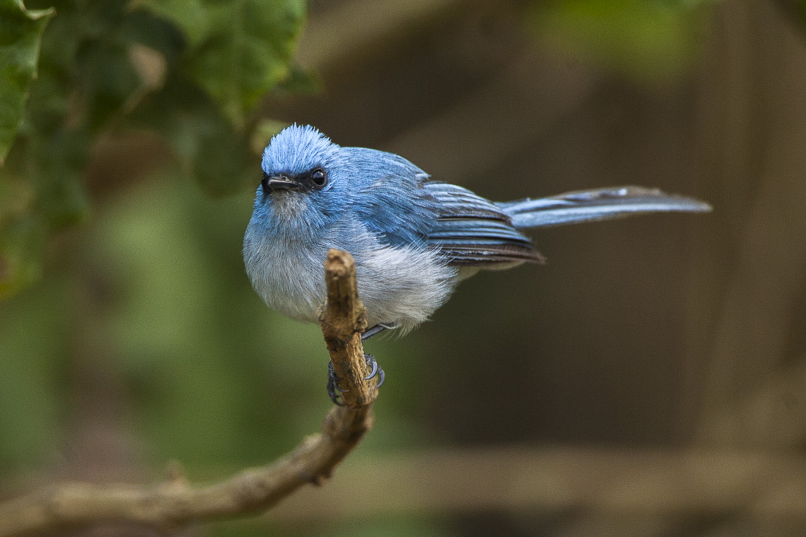 African Blue Flycatcher - Kibale - Uganda 06_4453